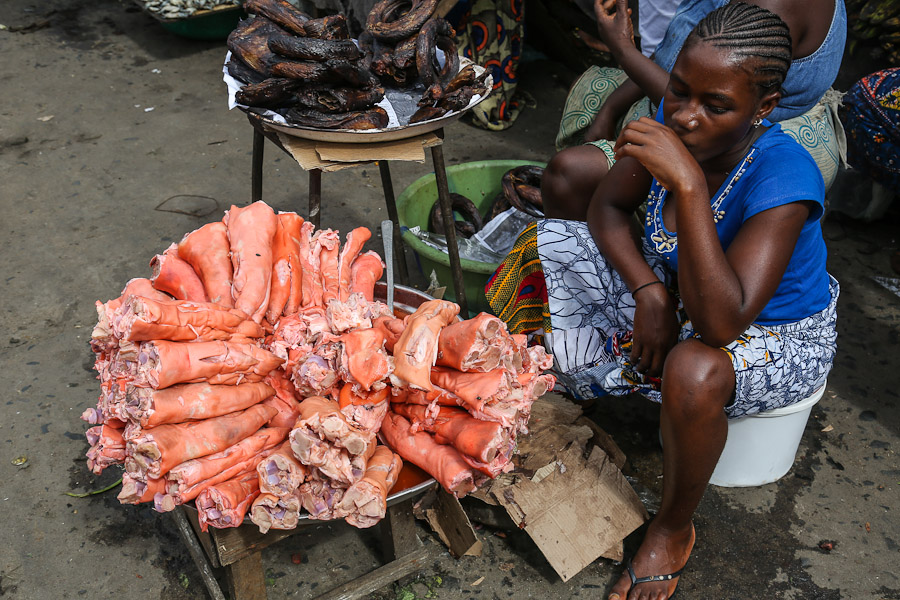 Pig legs in Monrovia, Liberia This is an image of food from Liberia